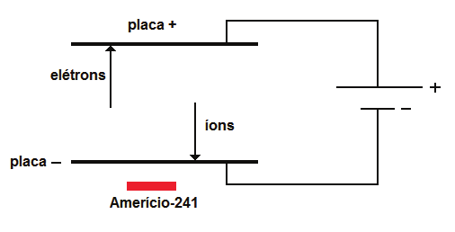 Esquema de funcionamento da câmara de ionização de um detector